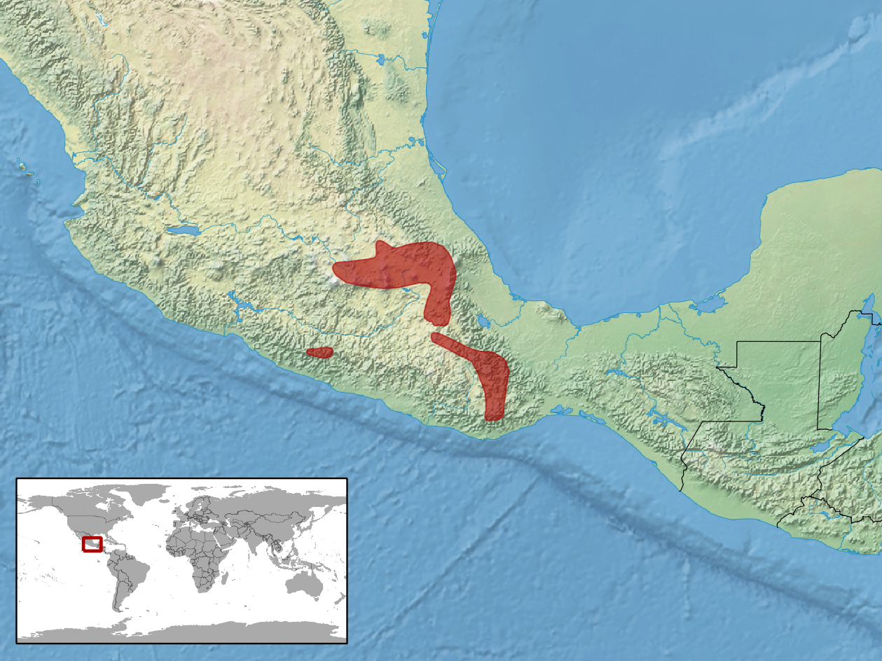 geographic distribution of Crotalus ravus syn Sistrurus ravus (Native: Mexico)